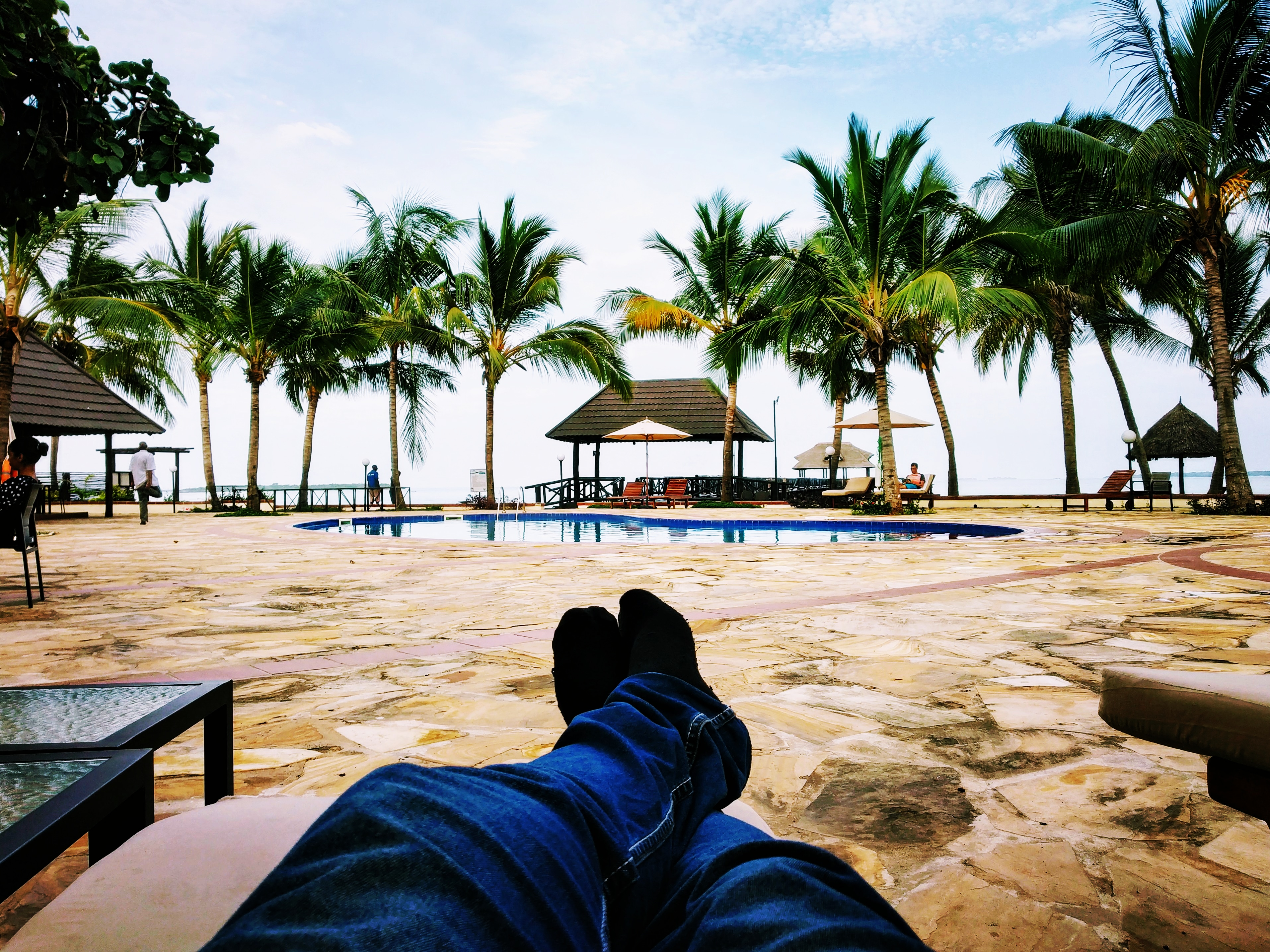 This is an image with the theme "Africa on the Move or Transport" from: Tanzania